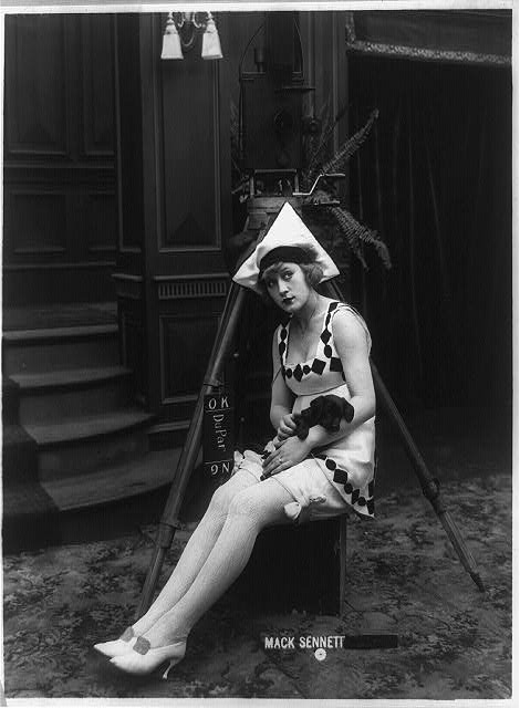 Marvel Rea in Mack Sennett comedy films. From the Library of Congress